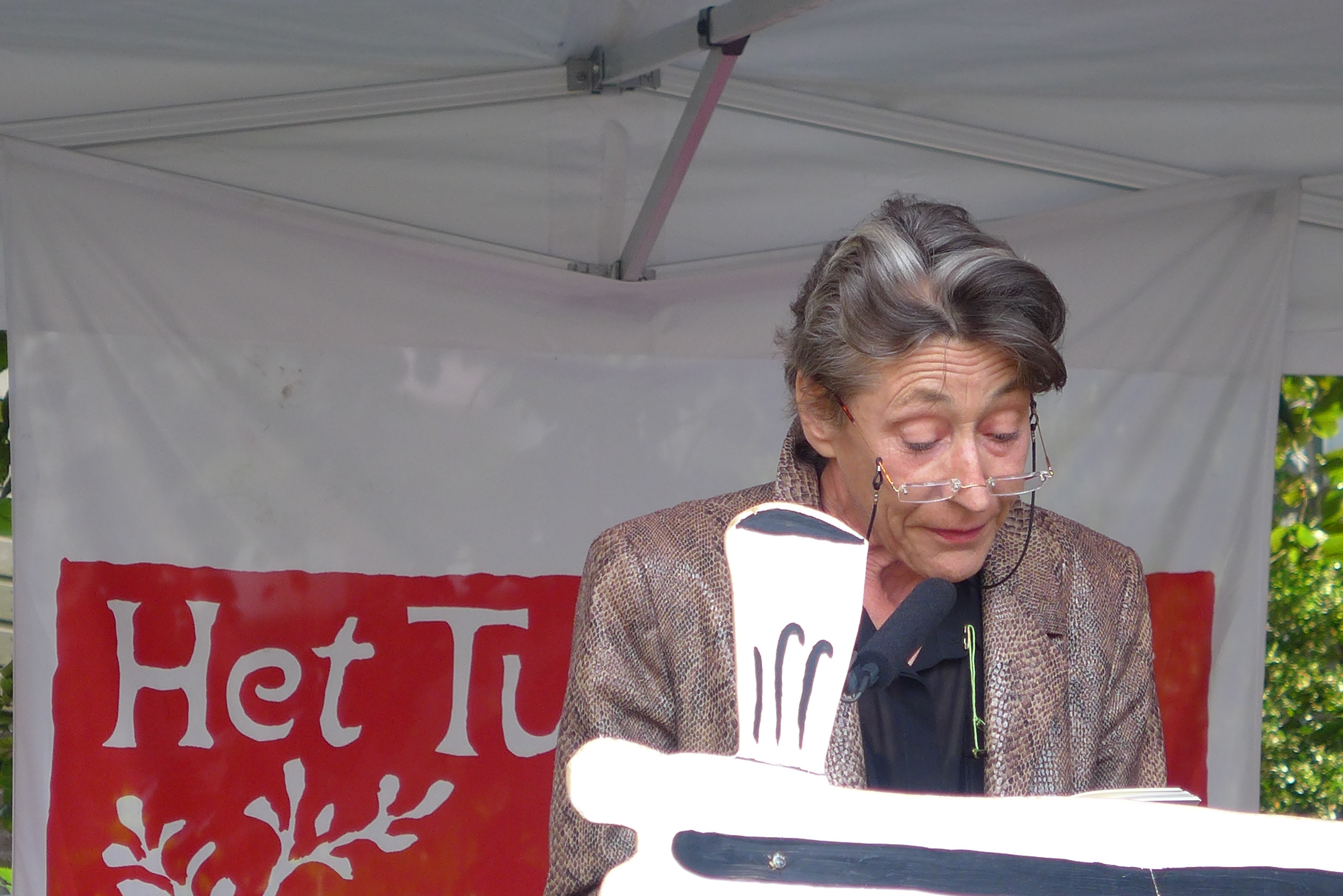 De Nederlandse dichteres Anneke Brassinga tijdens haar optreden op het poëziefestival 'Het Tuinfeest' in Deventer op 1 augustus 2015.